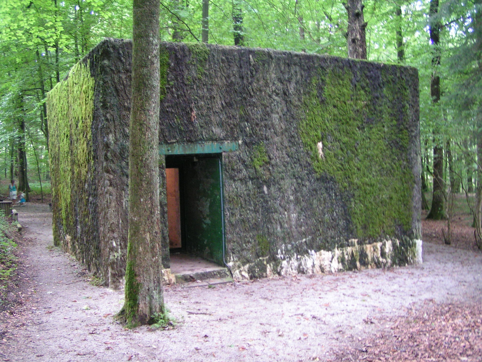 Wolfsschlucht 1, Bunker of Hitler in Ardennes, Brûly-de-Pesche, near Couvin, Belgium